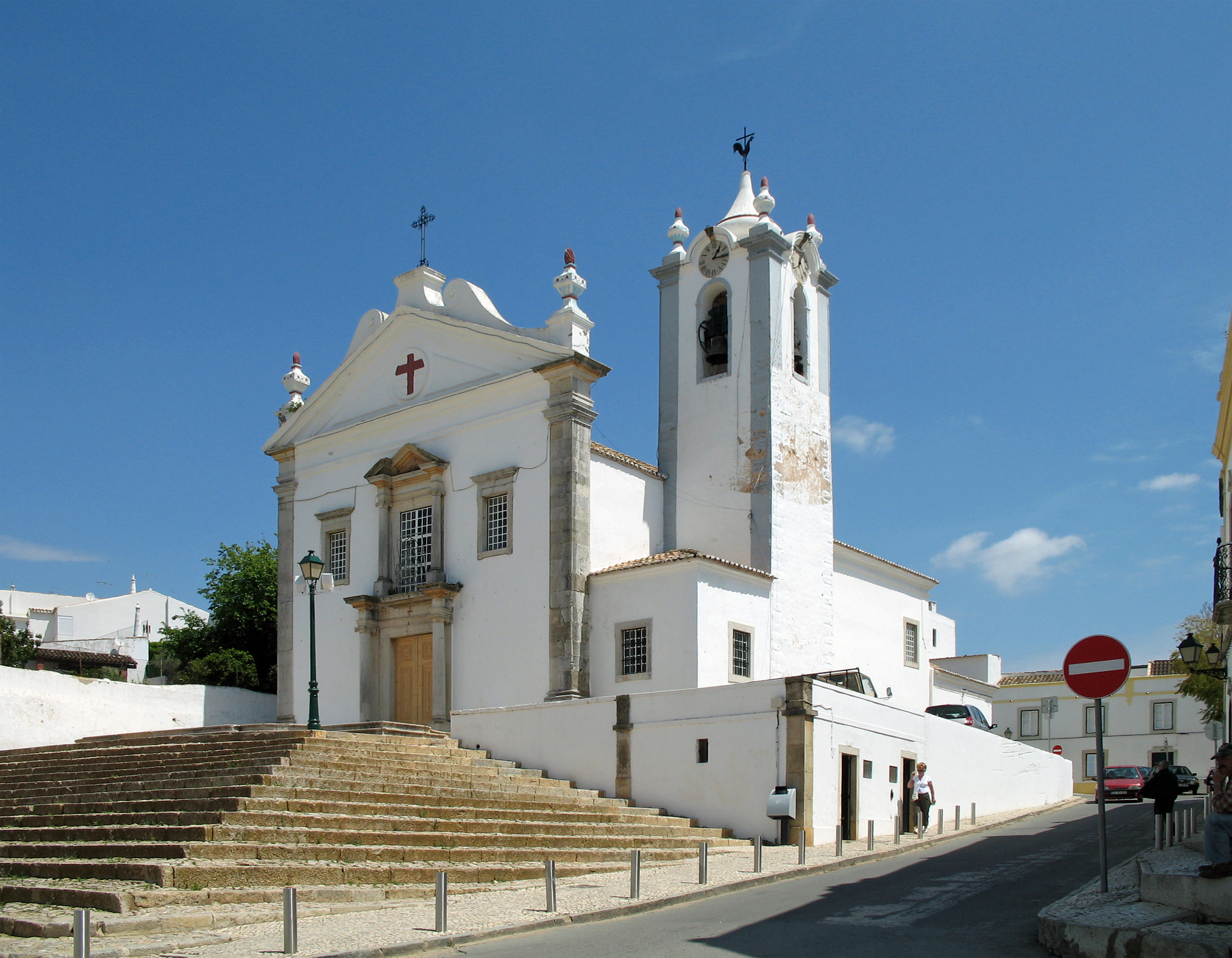 Estoi (Algarve, Portugal): Saint Martin's church (Igreja de São Martino - Igreja Matriz de Estoi)